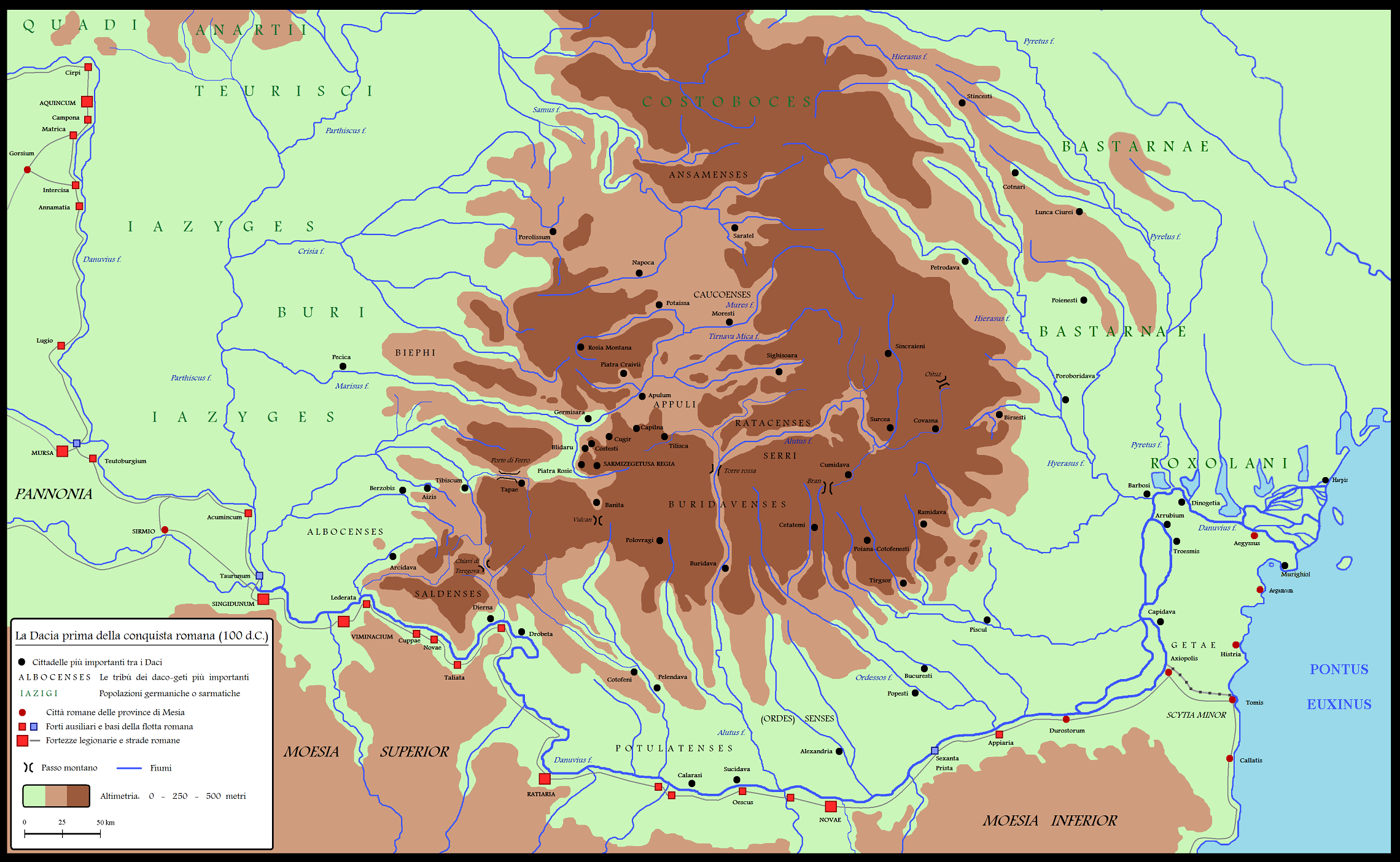 Dacia around 100 AD, before the Roman conquest, ancient shoreline corrected based on C. M. Ștefănescu, La formation et l'évolution du delta du Danube, Comité des Travaux Historiques et Scientifiques, Paris, Imprimerie Nationale, 1981, 197 pp. & Grigore Antipa, The Danube Delta and the Black Sea, Academia Română publ., 1939.